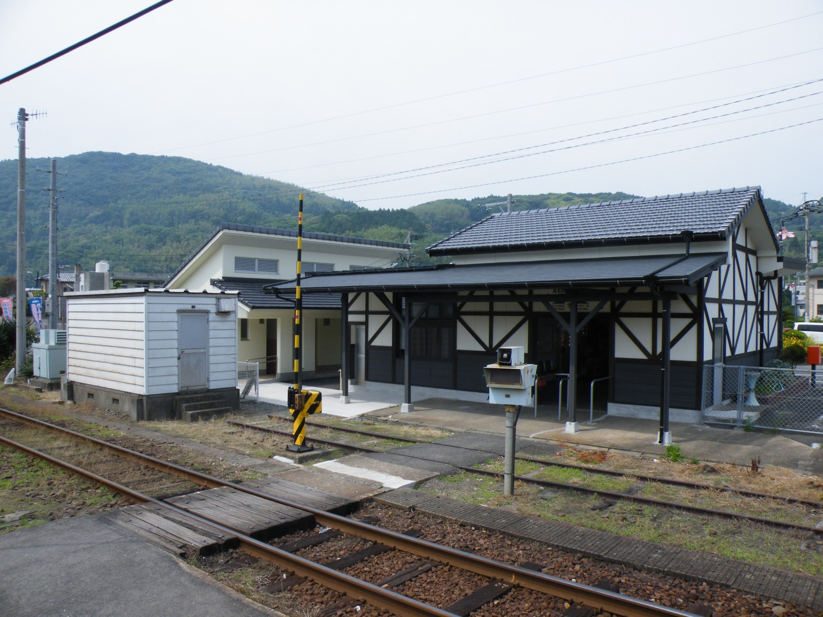 Matsuura Railway Emukae-Shikamachi Station viewed from the platform